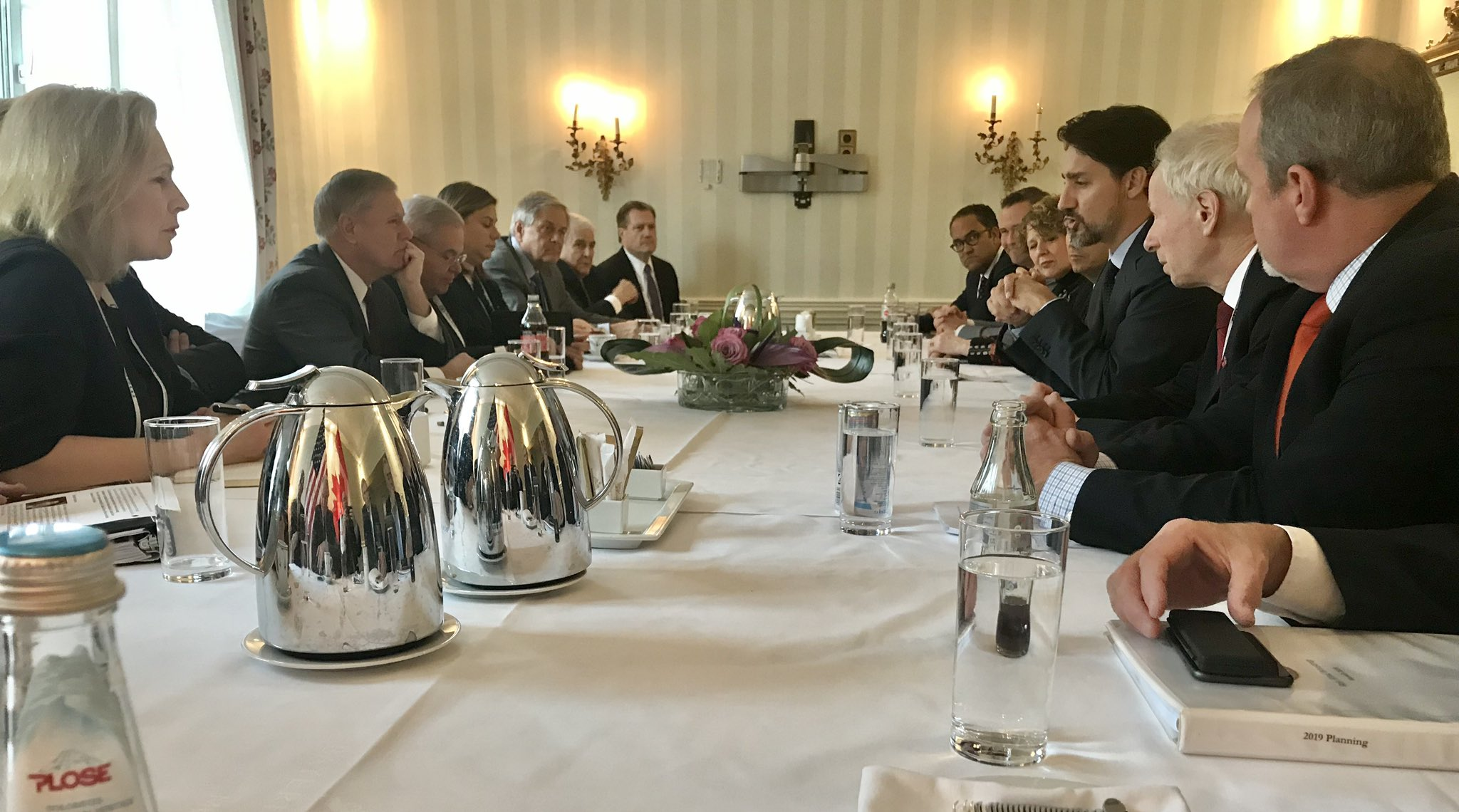 At the @MunSecConf, I met with Prime Minister @JustinTrudeau. At a time when our allies have serious doubts about American leadership, these conversations are critical to learn what we can do better in Congress to assure our allies that we value their partnership. #MSC2020